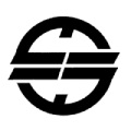 Ranzan Saitama chapter